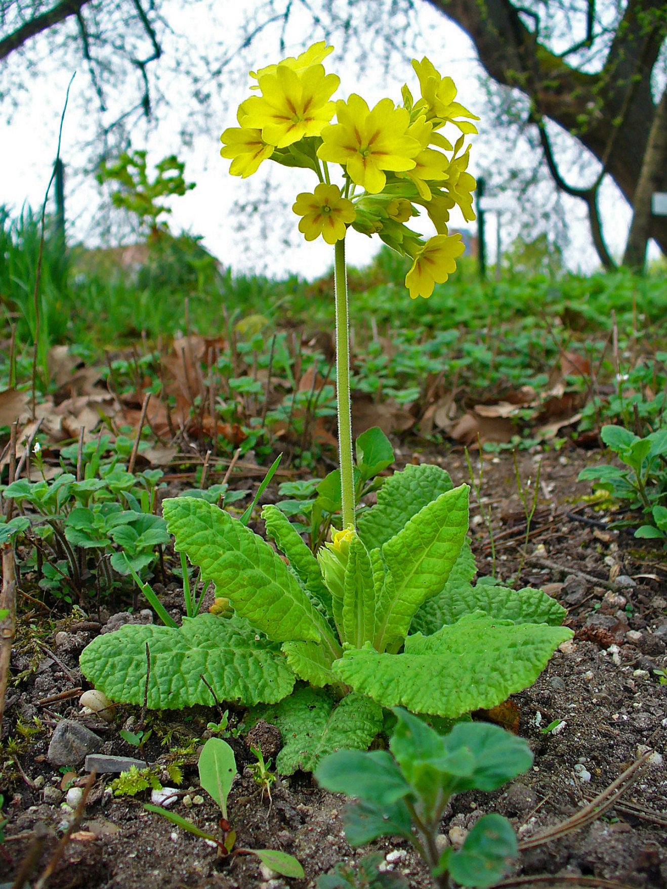 Primula veris, Primulaceae, Cowslip, habitus. Botanical Garden KIT, Karlsruhe, Germany.